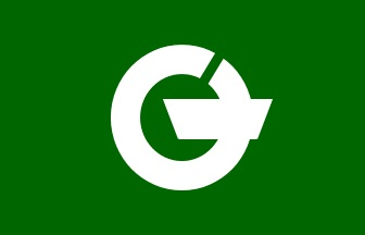 Flag of Nagatoro Saitama